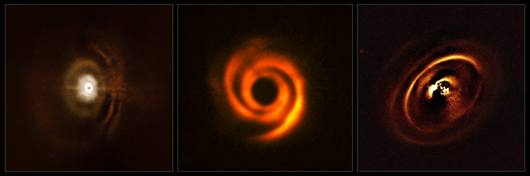 These three planetary discs have been observed with the SPHERE instrument, mounted on ESO’s Very Large Telescope. The observations were made in order to shed light on the enigmatic evolution of fledgling planetary systems. The central parts of the images appear dark because SPHERE blocks out the light from the brilliant central stars to reveal the much fainter structures surrounding them.